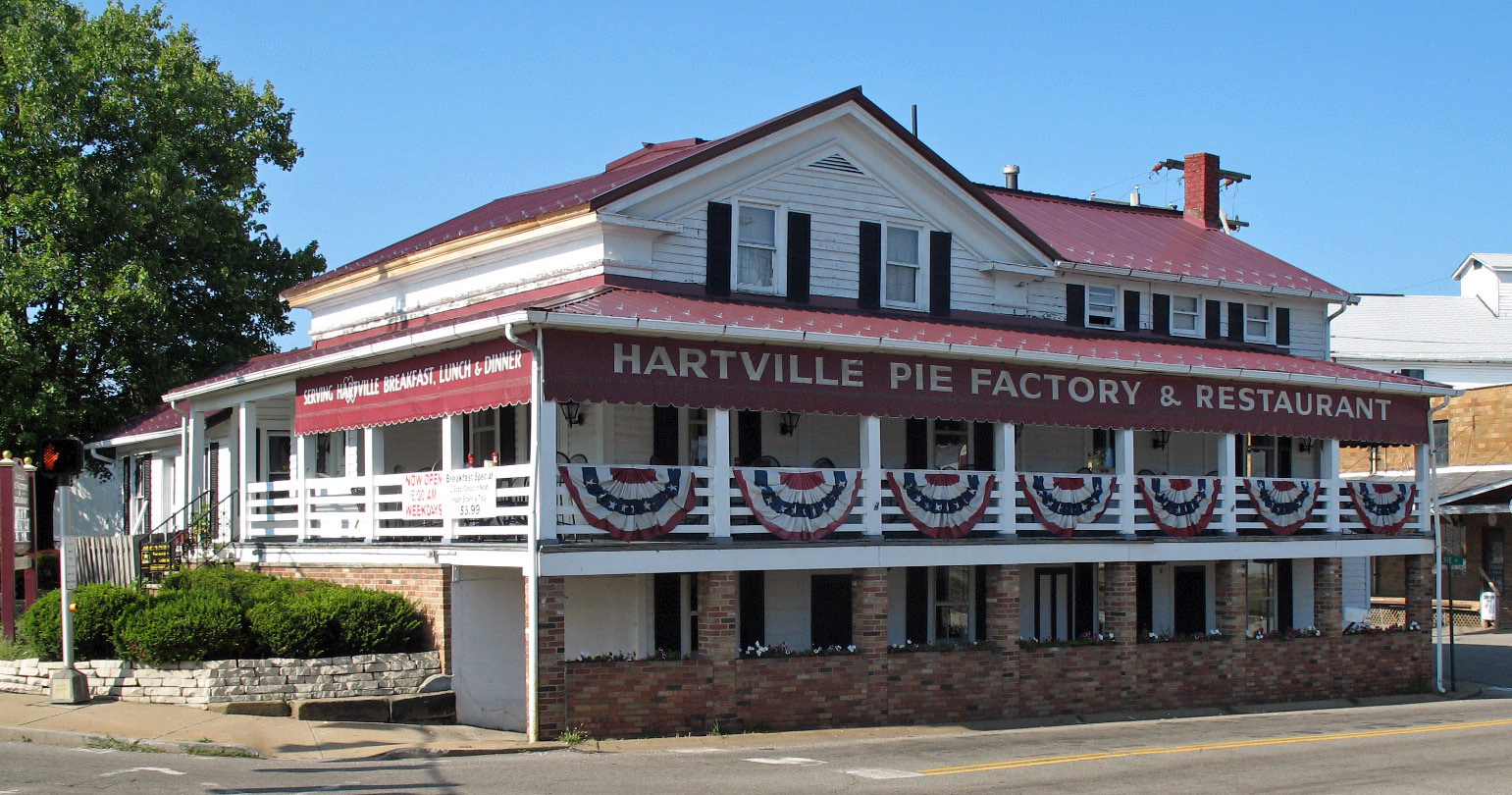 Registered Historic Places in Stark County, Ohio. Hartville Hotel, 101 N. Prospect Ave., Hartville, Ohio, USA. Photographed 2008-08-30 from the southeast corner of E. Maple St. and S. Prospect Ave.